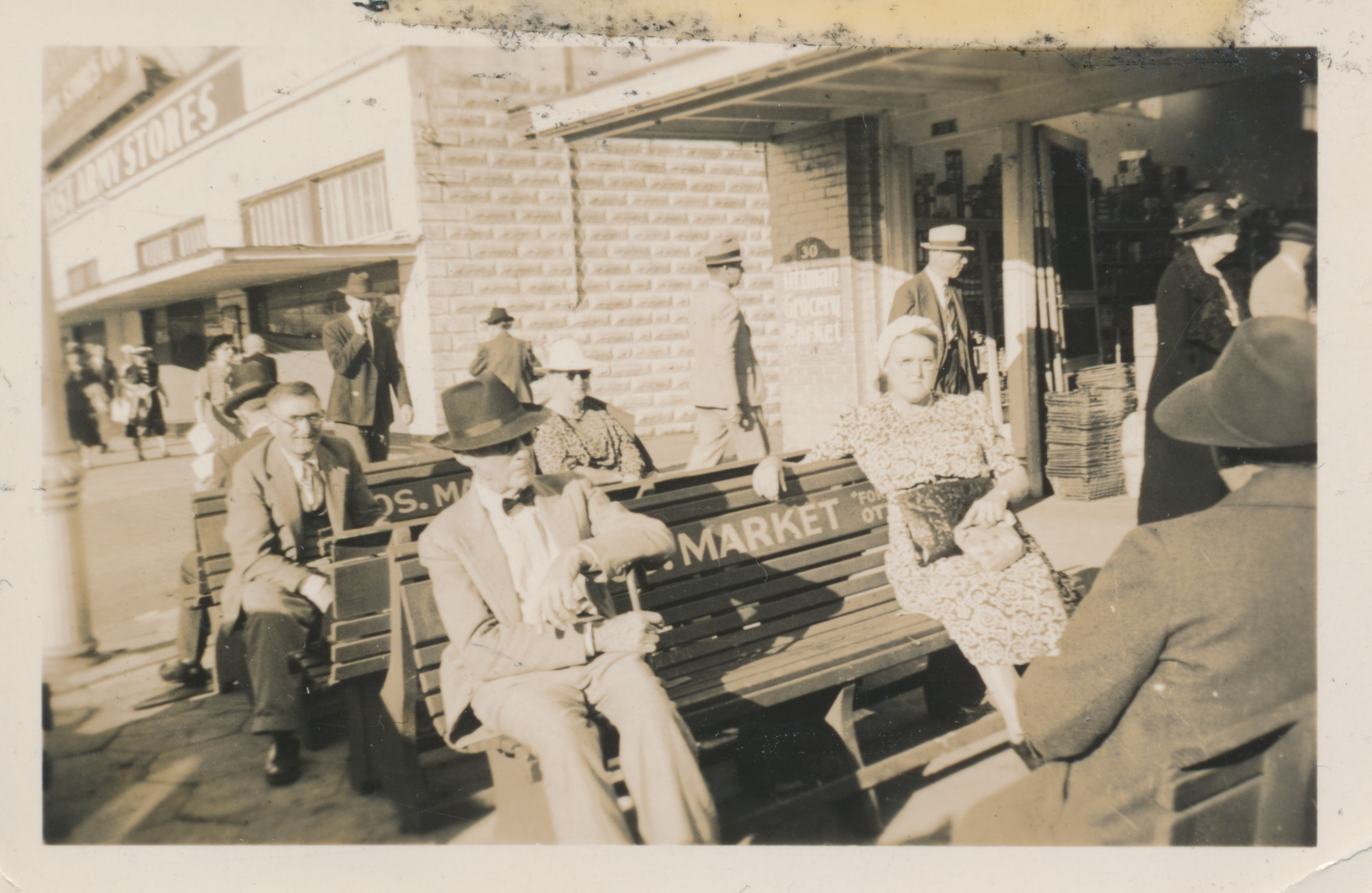 This file represents evidence that the green benches existed and were only permitted for use by white residents of the Floridian city.